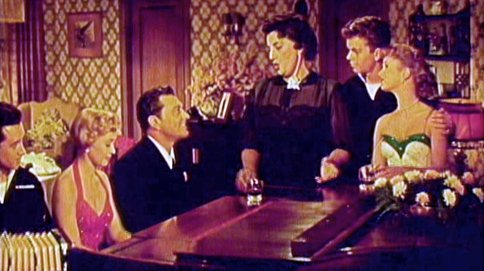 Screenshot from the trailer for the 1955 film, "Hit The Deck", showing Vic Damone, Jane Powell, Kay Armen, Russ Tamblyn and Debbie Reynolds.